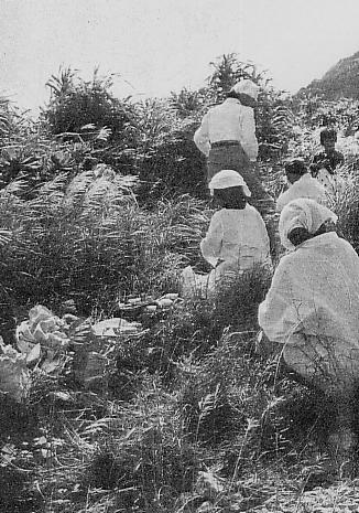 Yuta(Okinawan shamans) circa 1955